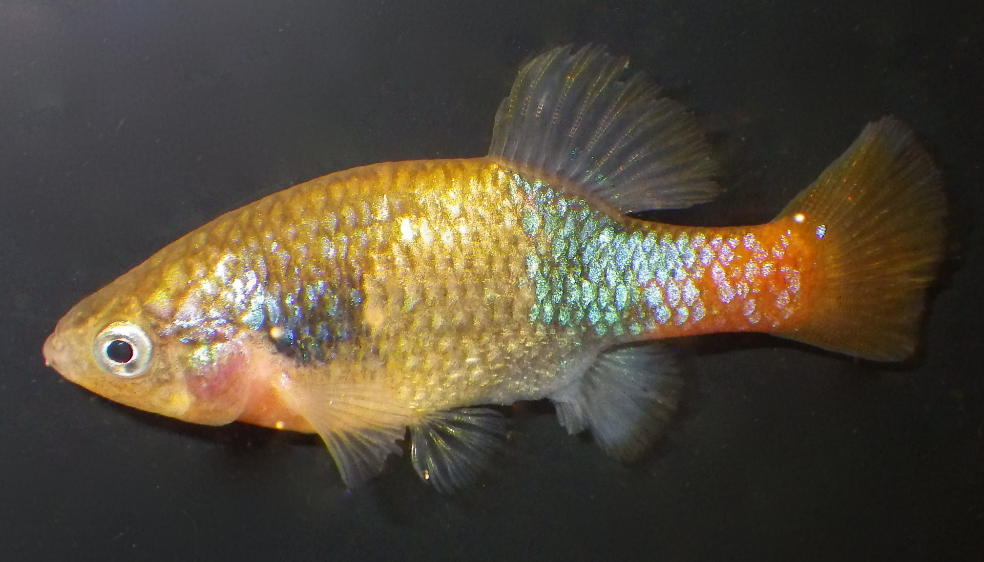 Male X. eiseni, variety from San Marcos